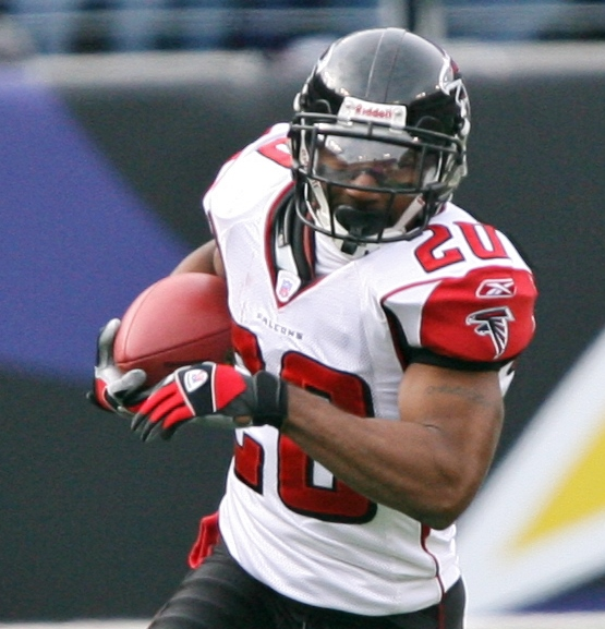 Atlanta Falcons kick returner Allen Rossum returns a kickoff.